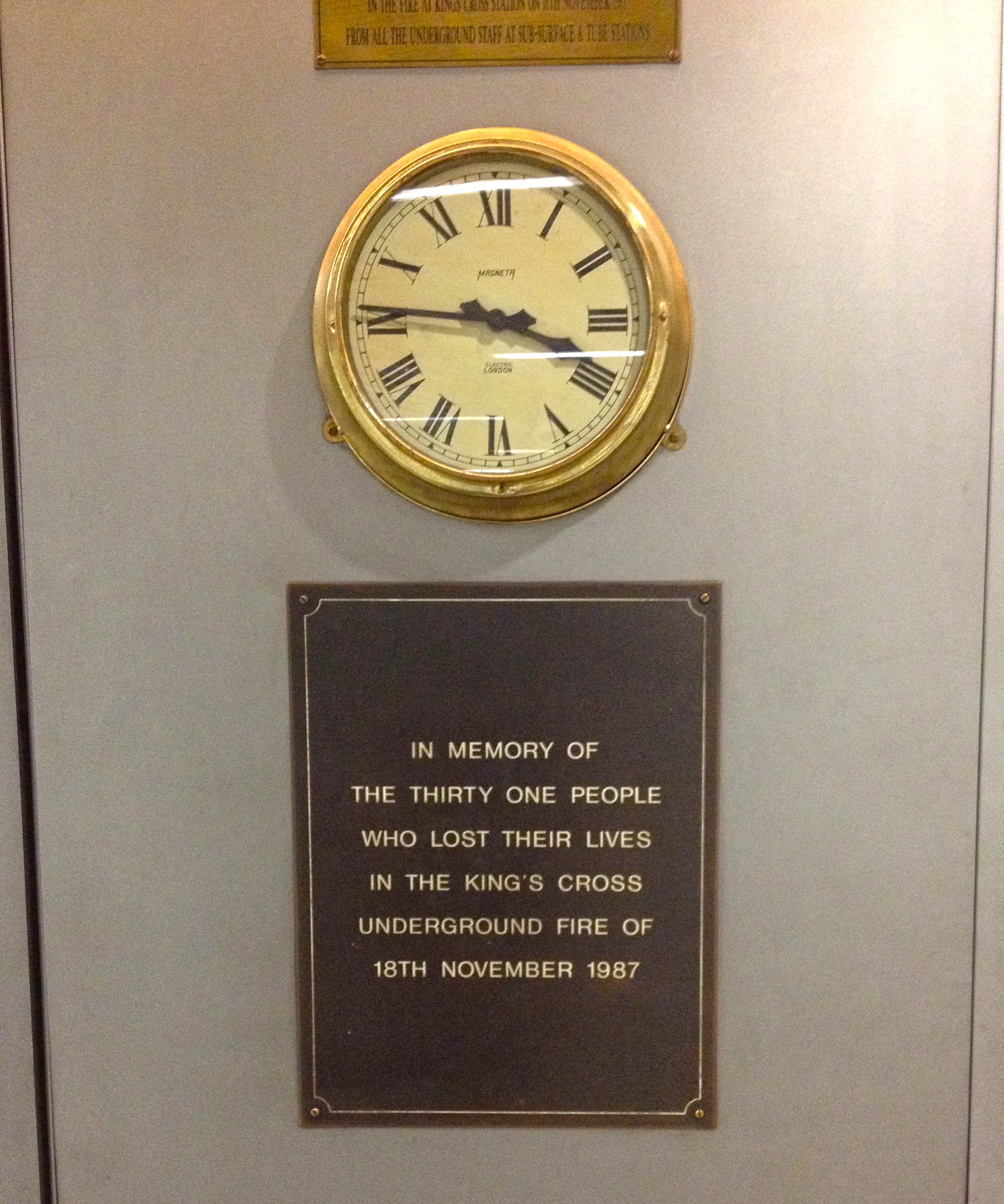 Memorial plaque with clock, King's Cross St. Pancras tube station, London. 31 people died in afire, at the King's Cross St. Pancras tube station, London on November 18, 1987.